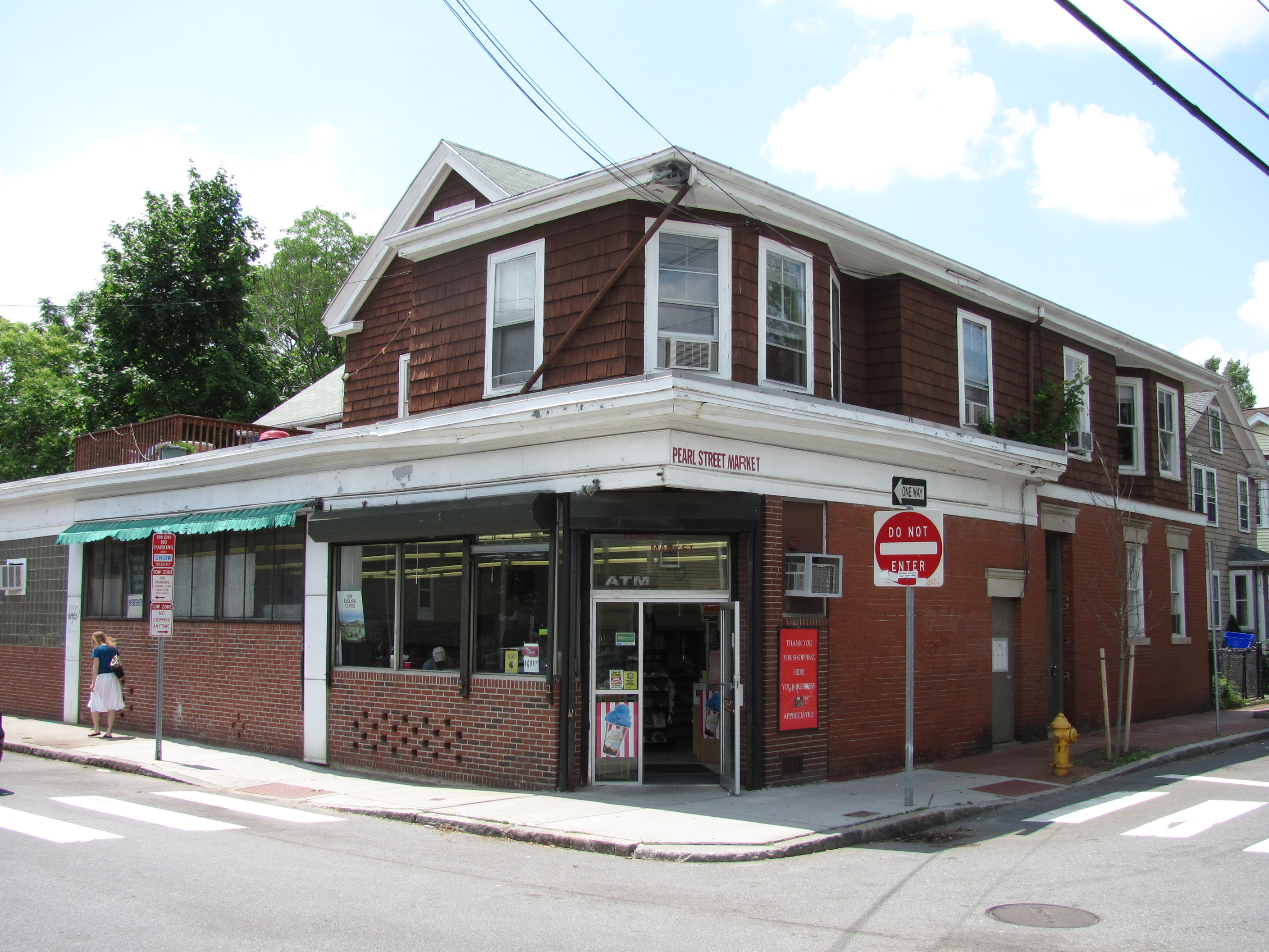 Pearl Street Market, Cambridgeport Massachusetts